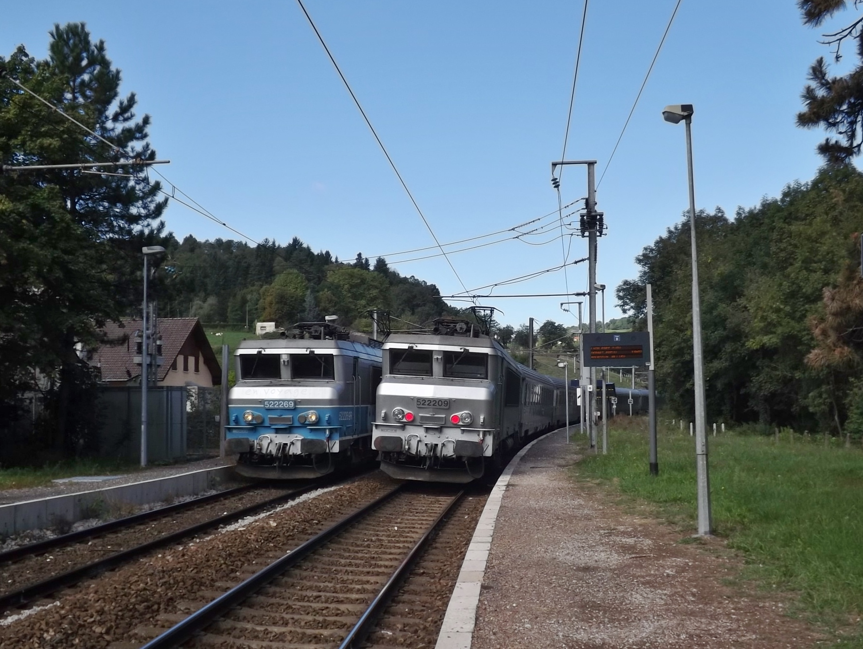 Sight of two French regional train in Lépin-le-Lac railway station, in Savoie. Train on the left comes from Lyon and is bound for Chambéry, whereas train on the right does the opposite journey.